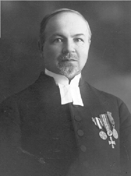 Heikki Haapanen, minister of Finnish Seamen's Mission in the U.S.A. 1908-1911; minister of Finnish Evangelical Lutheran Church of Finland. Chaplain for the white army in years 1917-1918. Suomen Merimieslähetyksen siirtolaispappi Yhdysvalloissa 1908-1911; Suomen evankelisluterilainen kirkko. Toimi kenttäpappina vv. 1917-1918